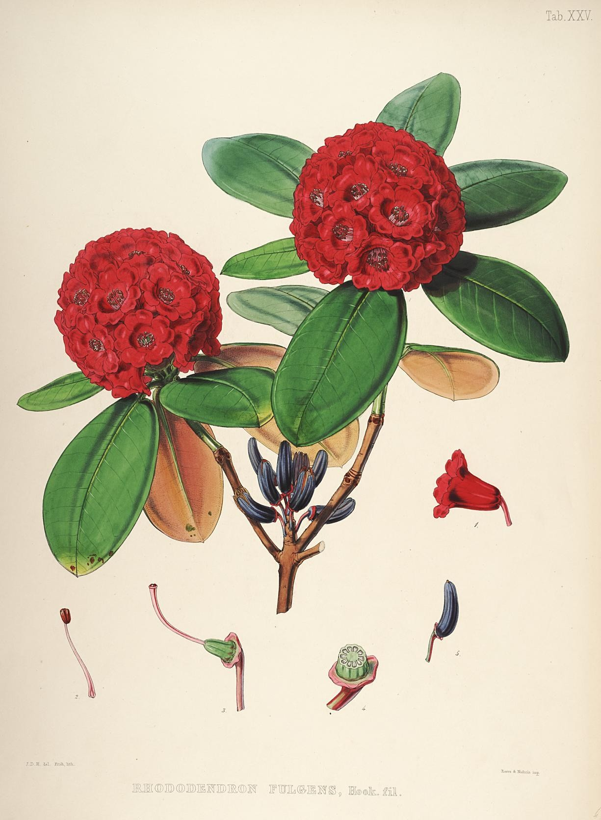 Tal3 , XXV, J.D.n. iel -EiUtL/lifK, IEEE BBMIDISKDM FUJIL© y fi^e^-G & Nichols 3ICS. Tiir 2 a, /